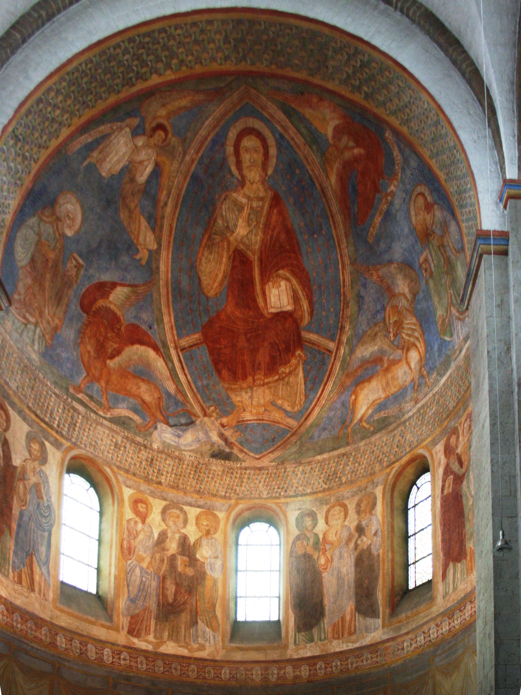 Knechtsteden abbey, Germany. Painting in the western apse.